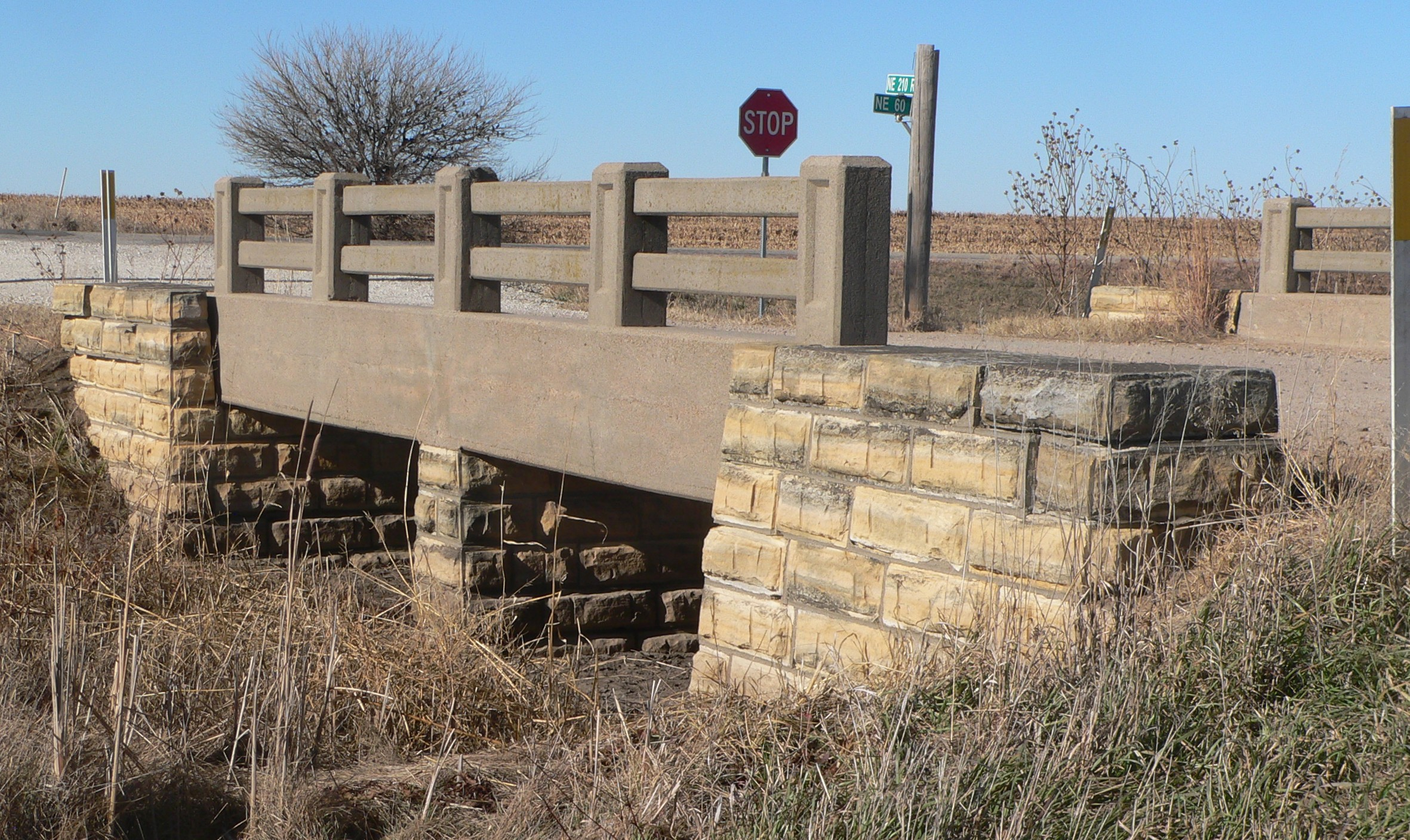 Bridge carrying county road 210 Rd across a dry watercourse, less than 100 ft east of county road NE 60 Ave, in Barton County, Kansas. View is from the southeast; the stop-sign in right background is at 60 Ave.